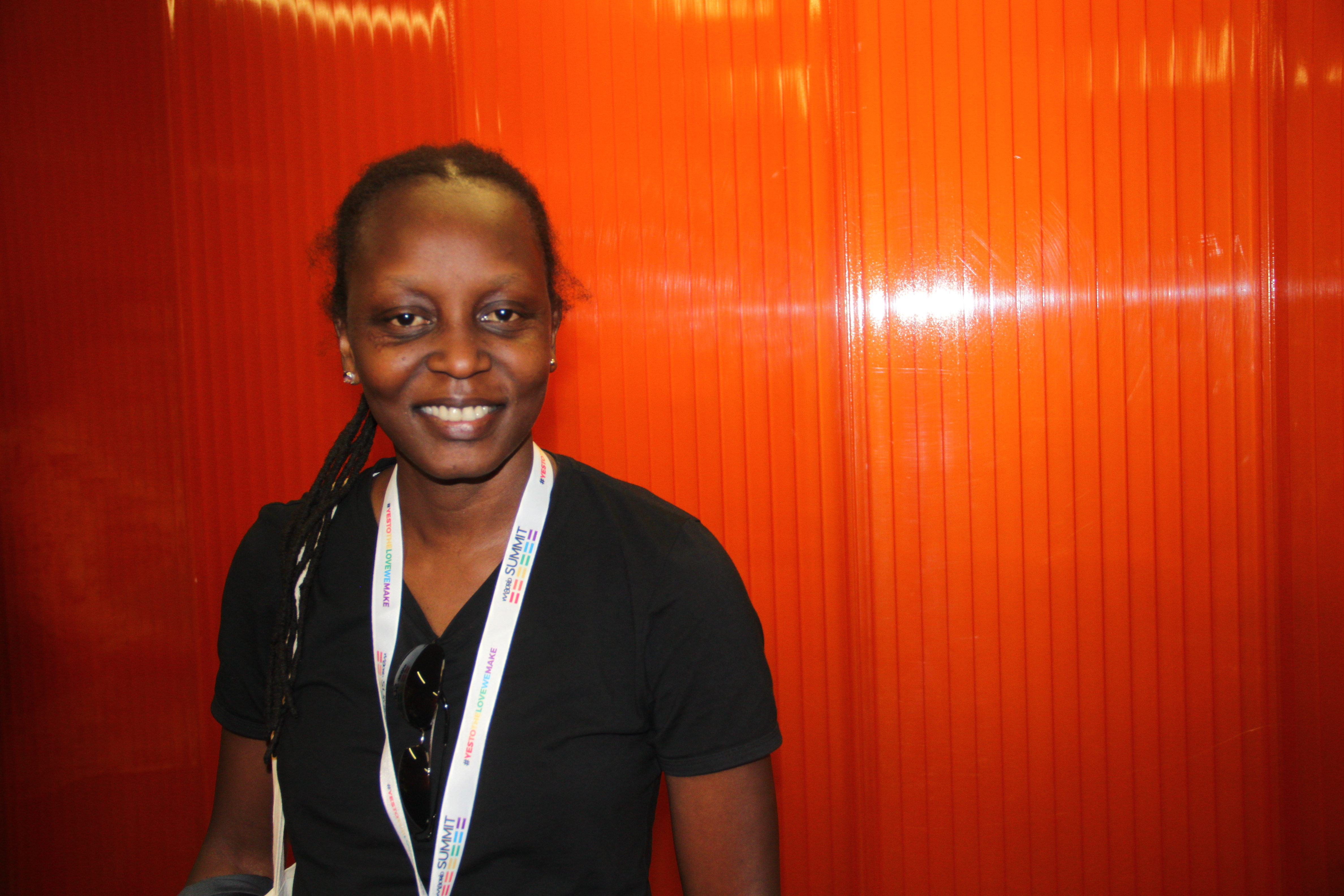 Kasha Jacqueline Nabagesera at WorldPride Madrid Summit